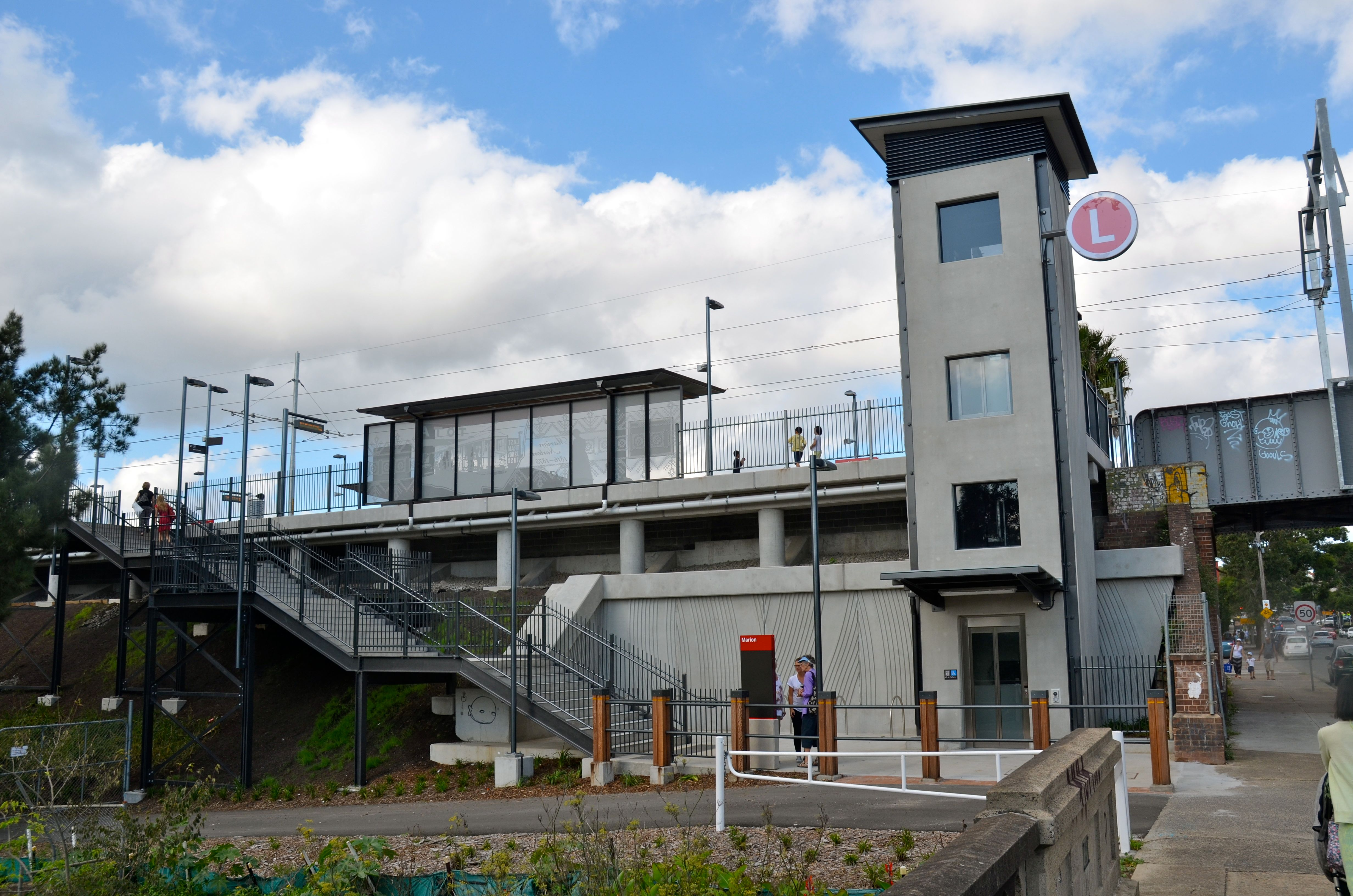 Exterior view of Marion light rail station from Marion St, Leichhardt.